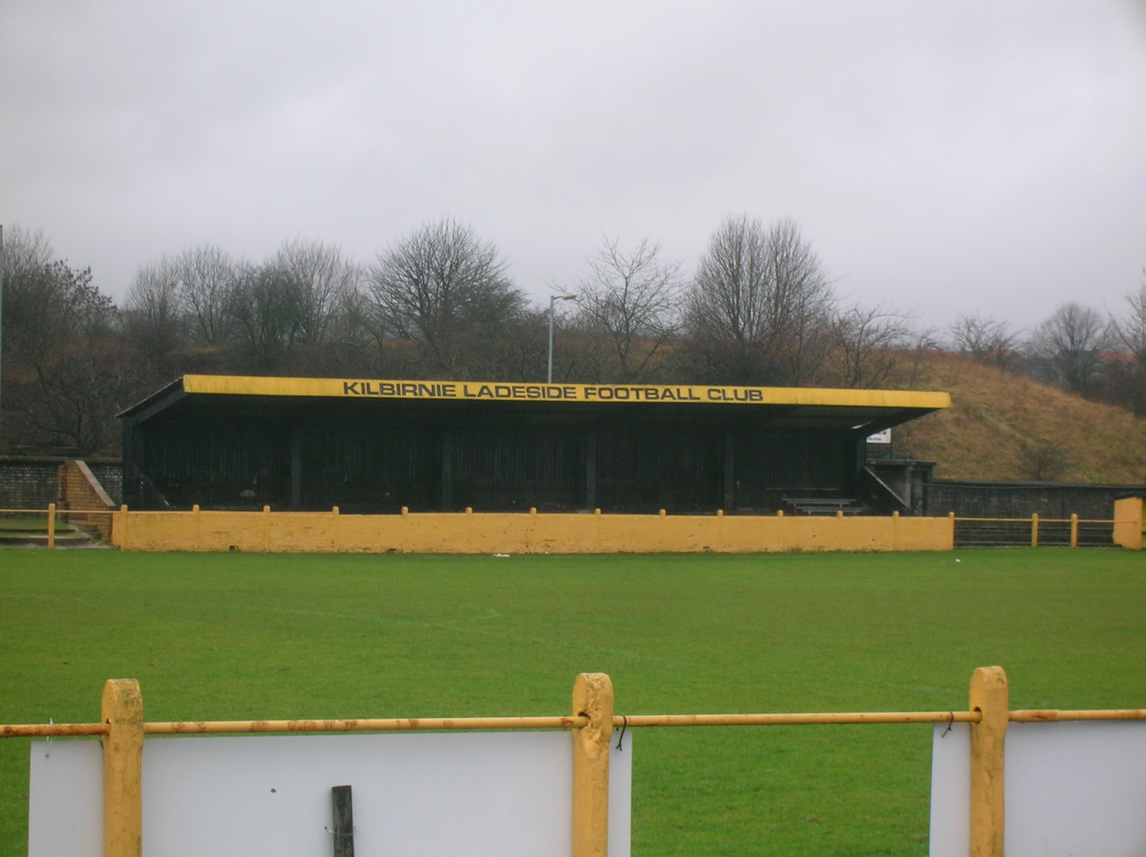 Kilbirnie Ladeside Football Club - one of the main stands.